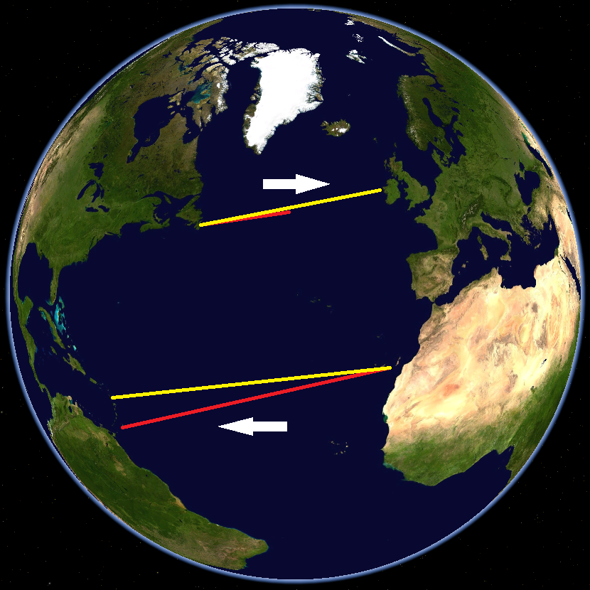 Basic chart of the routes taken by Don Allum (with Geoff Allum, in red) to row across the Atlantic Ocean in both directions.